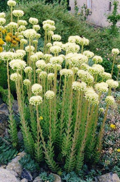 Sedum sediforme